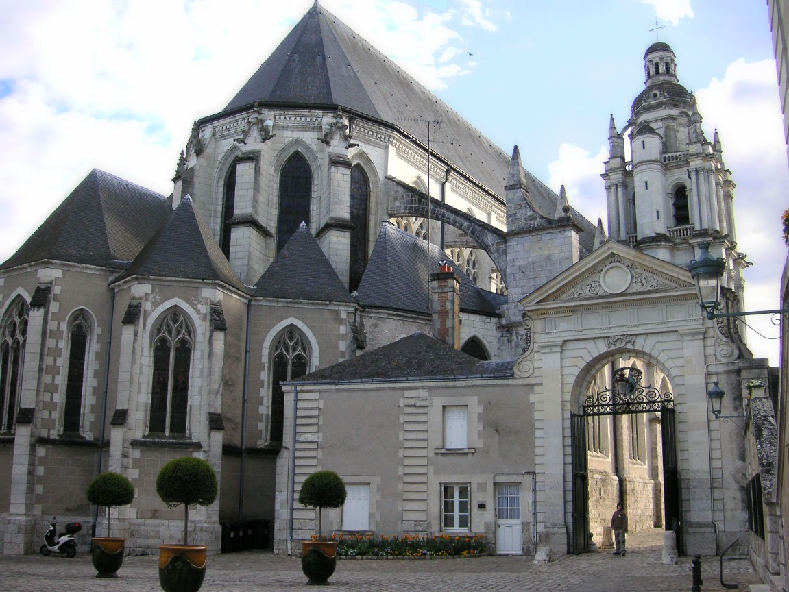 France, Blois Cathedral from the east